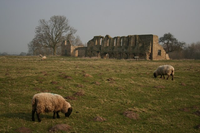 Tupholme Abbey. The ruins of the Praemonstratensian abbey founded c1160